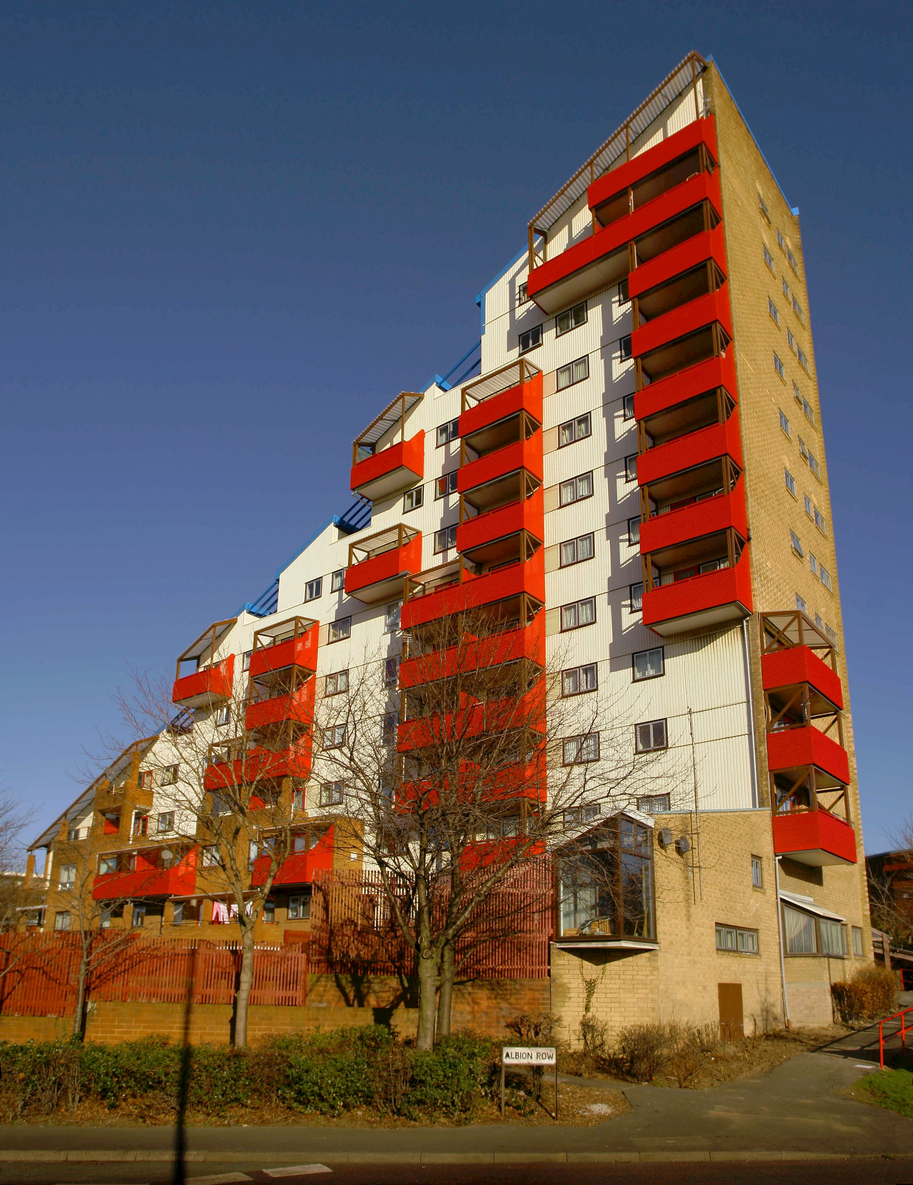 Tom Collins House, Byker, Newcastle upon Tyne - This building forms the western end of the Byker Wall.